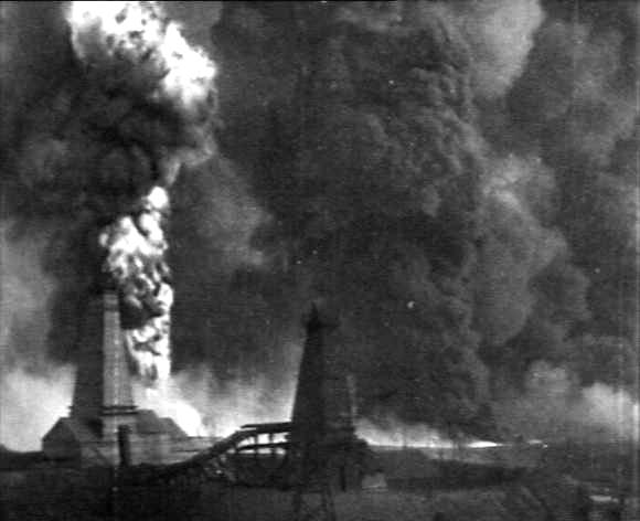 One of the first films of Azerbaijan. "Oil Gush Fire in Bibi-Heybat".